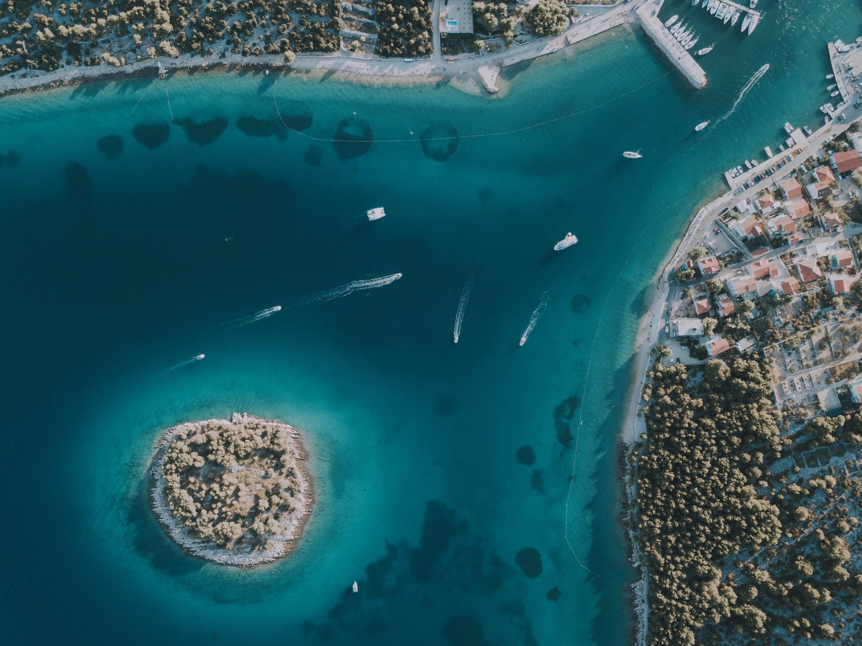 Jezera port from the air